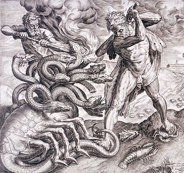 Engraving about the second labour of Heracles: slay the Lernaean Hydra